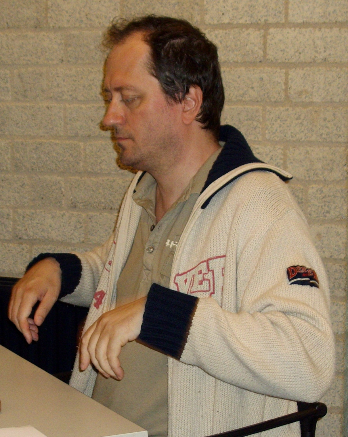 GM Csaba Horváth, Hungary, Leiden Chess Tournament 2008